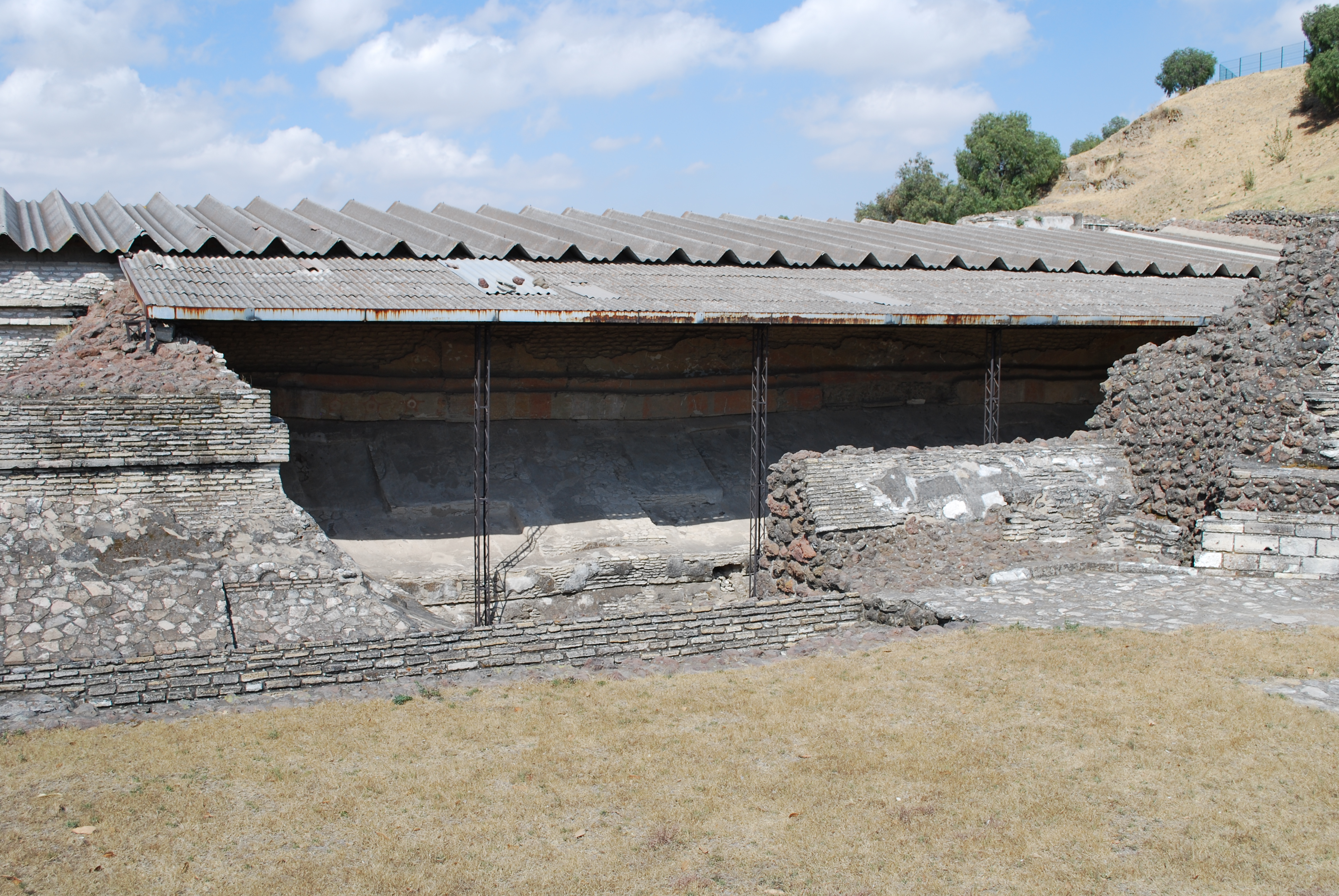 Covered area with mural remains at Building 2, Great Pyramid of Cholula, Puebla, Mexico